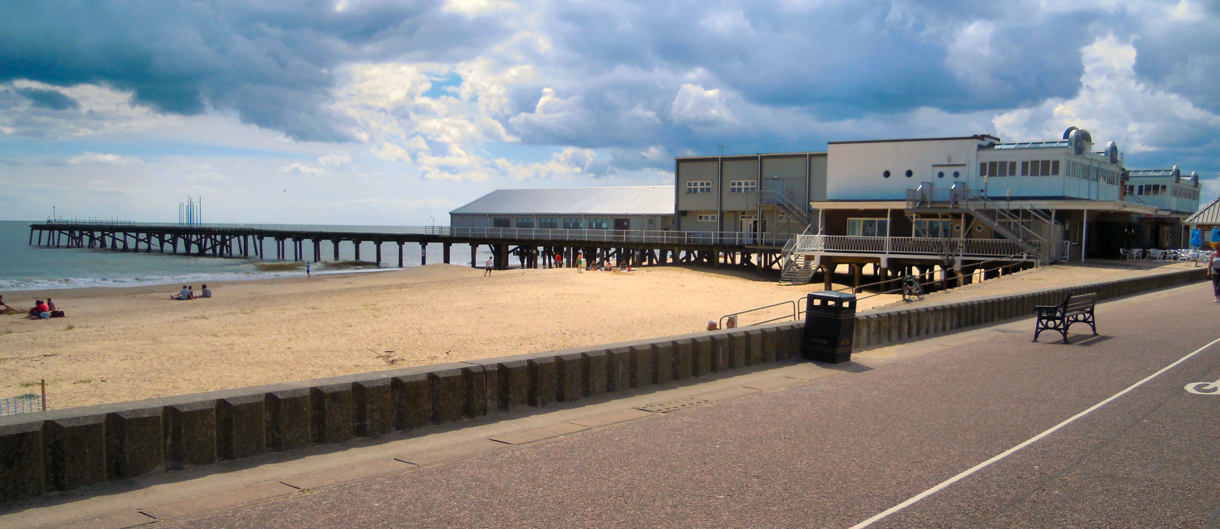 Claremont Pier in Lowestoft in Suffolk